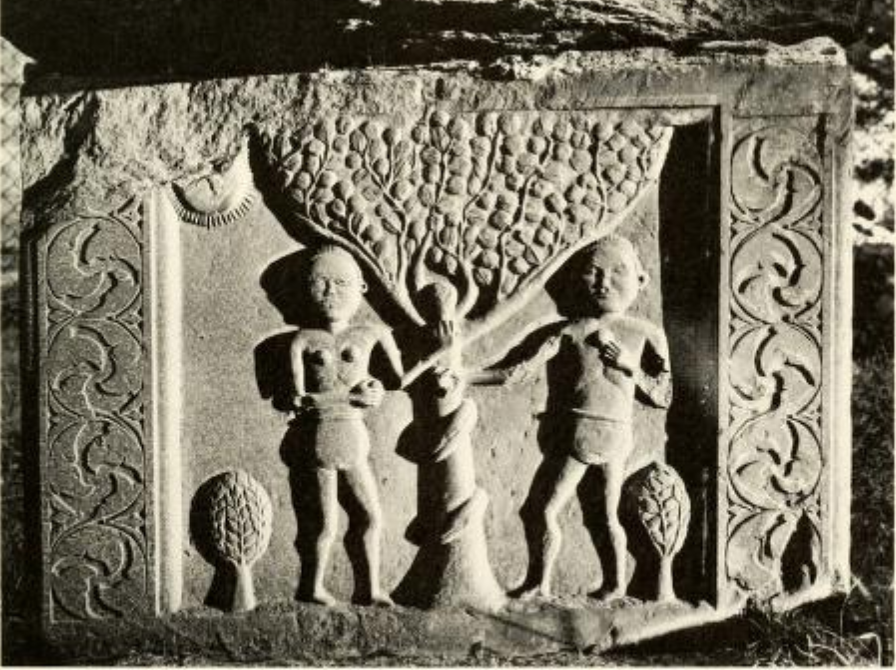 Mary Bulkeley Grave. Old Burying Ground, Halifax, Nova Scotia